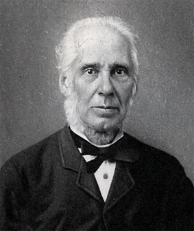 Scan of photographic frontis to above; slightly cropped